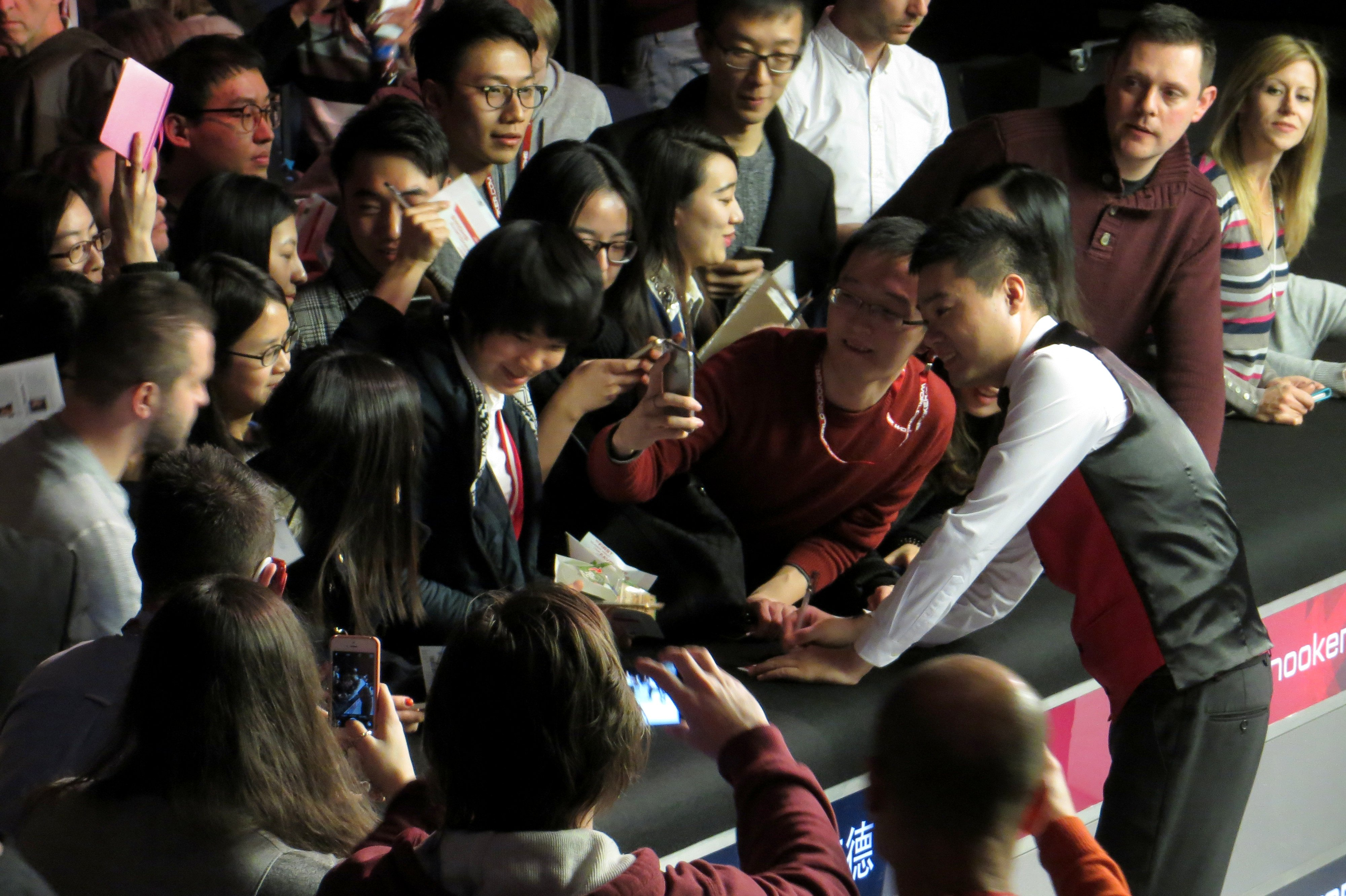 Wow! What a day of snooker it was today. We got to see Ronnie O'Sullivan, Mark Selby and Neil Robertson all in one session - that's probably the three best players in the world. The fourth player we watched today was this guy, Ding Junhui. He lost his match to the clinical Neil Robertson but on the way managed to make a maximum 147 break. Both tournament 147 breaks and my presence at live snooker are sufficiently rare for this combination to potentially never happen again, so we were thrilled to see a maximum in the flesh. To top it all, while I was waiting for Laura to powder her nose, I managed to share a moment and a handshake with my fellow stroke survivor Willie Thorne who is back in the commentary box like he'd never been away. And he's an absolute gent. Speaking of which, back to Ding. We think of Ronnie O'Sullivan as being probably the most popular snooker player, but as we were reminded today, this guy regularly pulls in TV audiences of 20-30 million every time he appears on telly, and to the Chinese fans he really is a rock star. Although he was buoyed up by his 147 (and associated £12k bonus) he stayed to meet and greet with fans even though he'd just lost the game, and nobody forces him to do that. To his credit, Mark Selby did exactly the same thing after his match even though he'd just lost it and probably just wanted to go home. Nice guys.